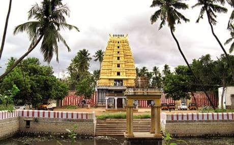 Chinnamanur Arulmigu Sivakami Amman Poolananthiswarar Temple.